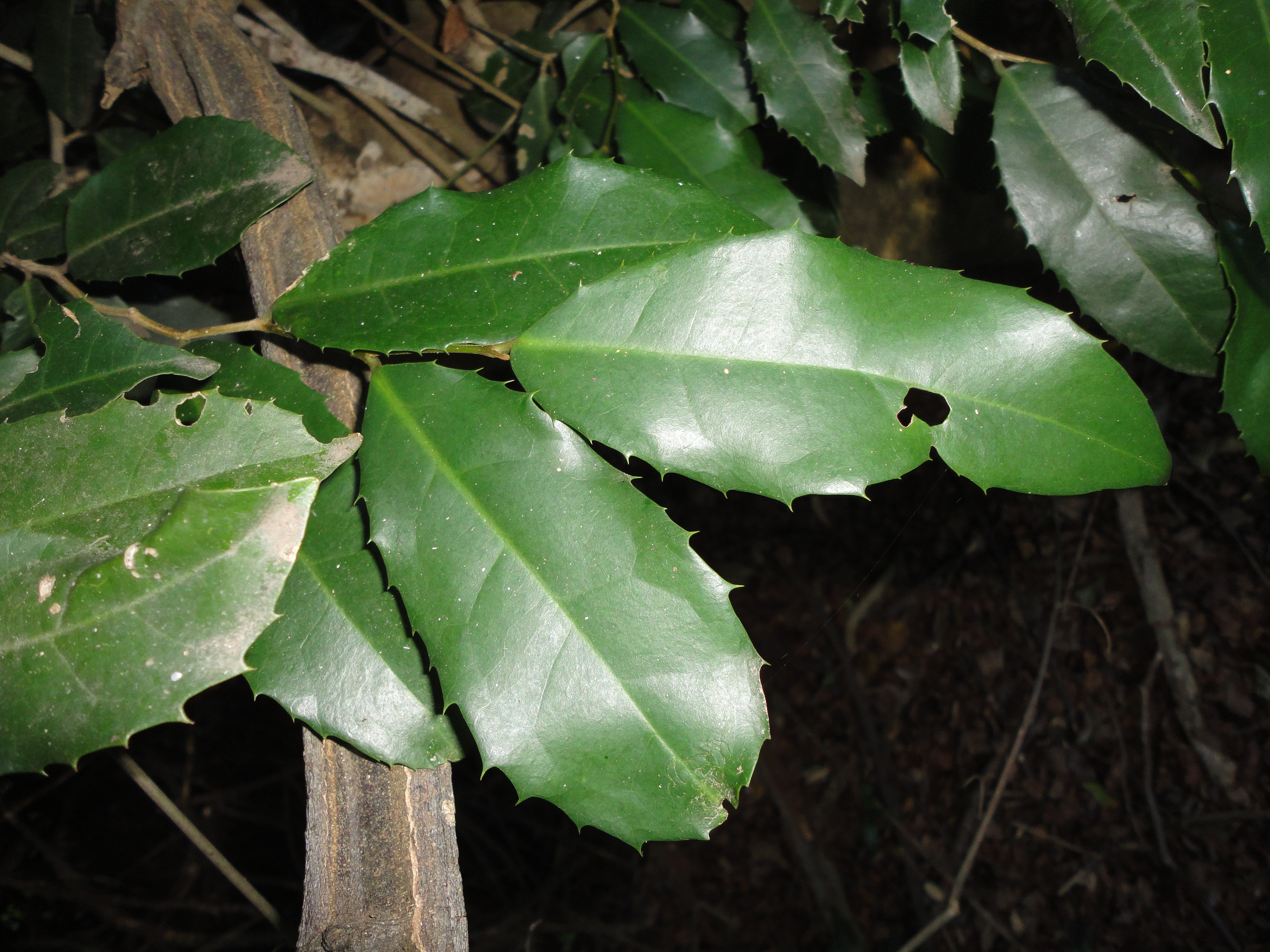 Foliage of a Forest peach at Burman Bush, Morningside, Durban